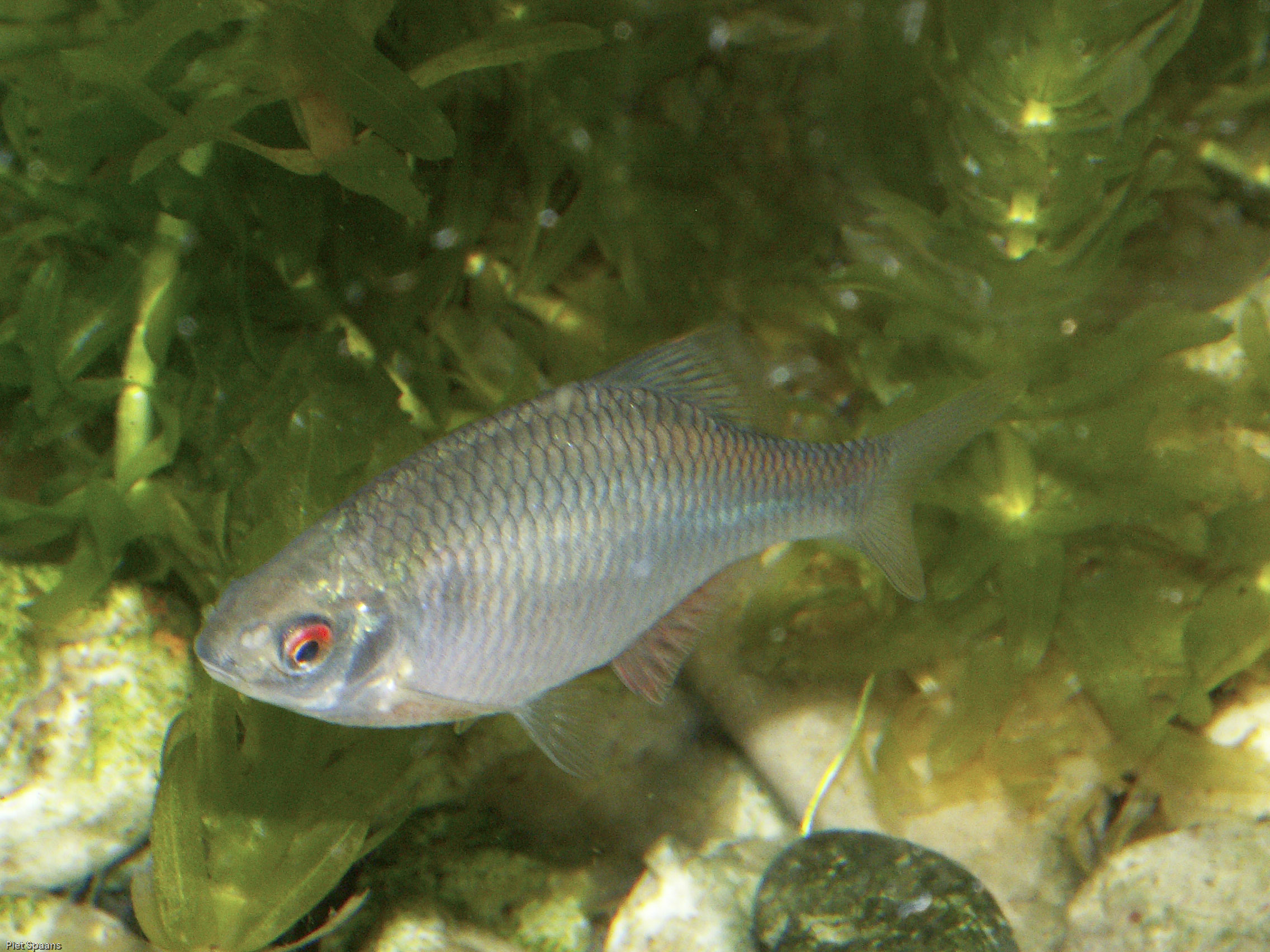 European bitterling, male